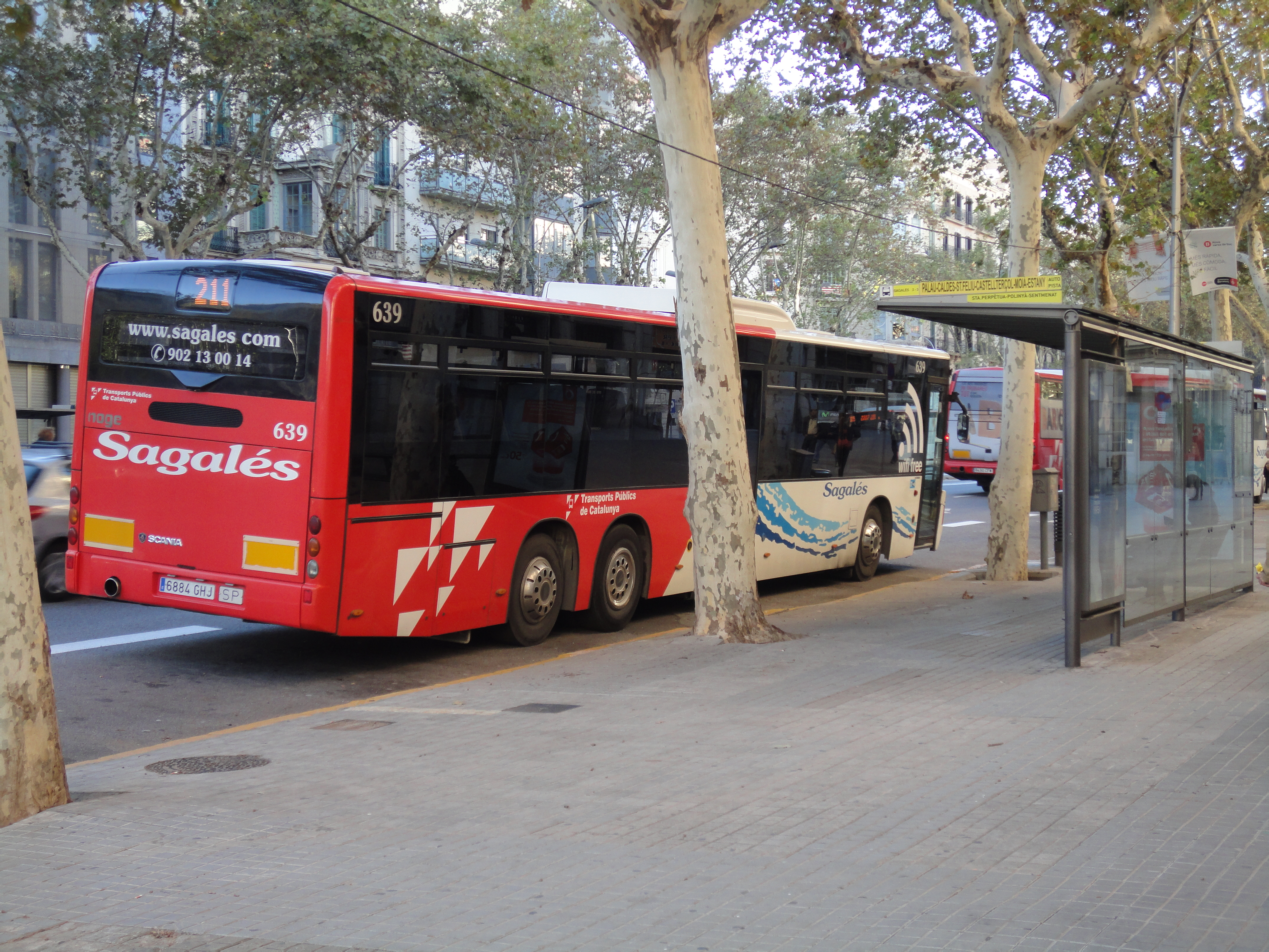 Noge intercity bus (#639, reg. 6884 GHJ) with Scania chassis, Passeig de Sant Joan in Barcelona, Catalonia, Spain. Sagalés operator.